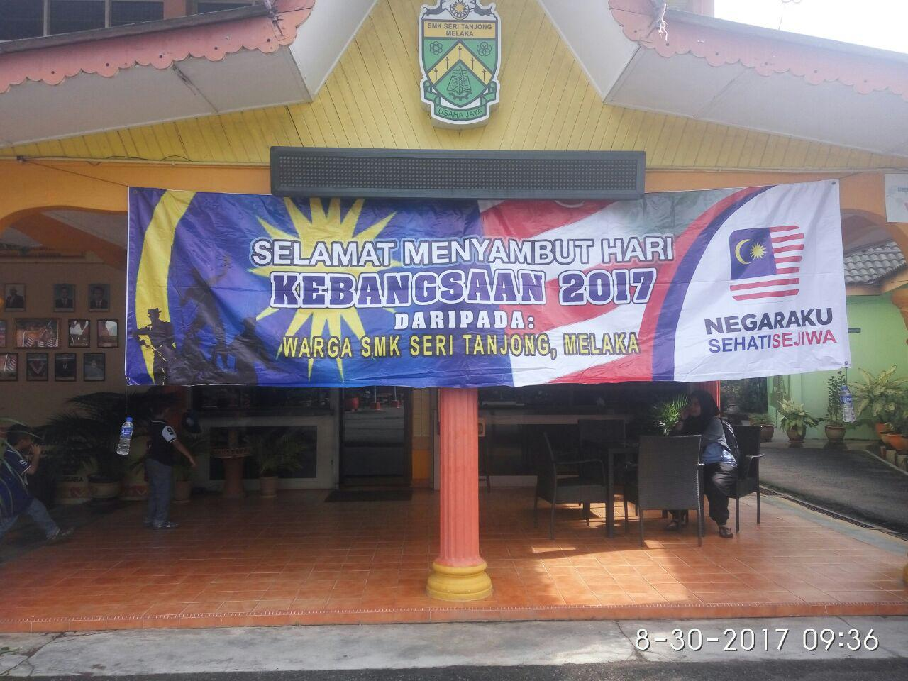 kain rentang